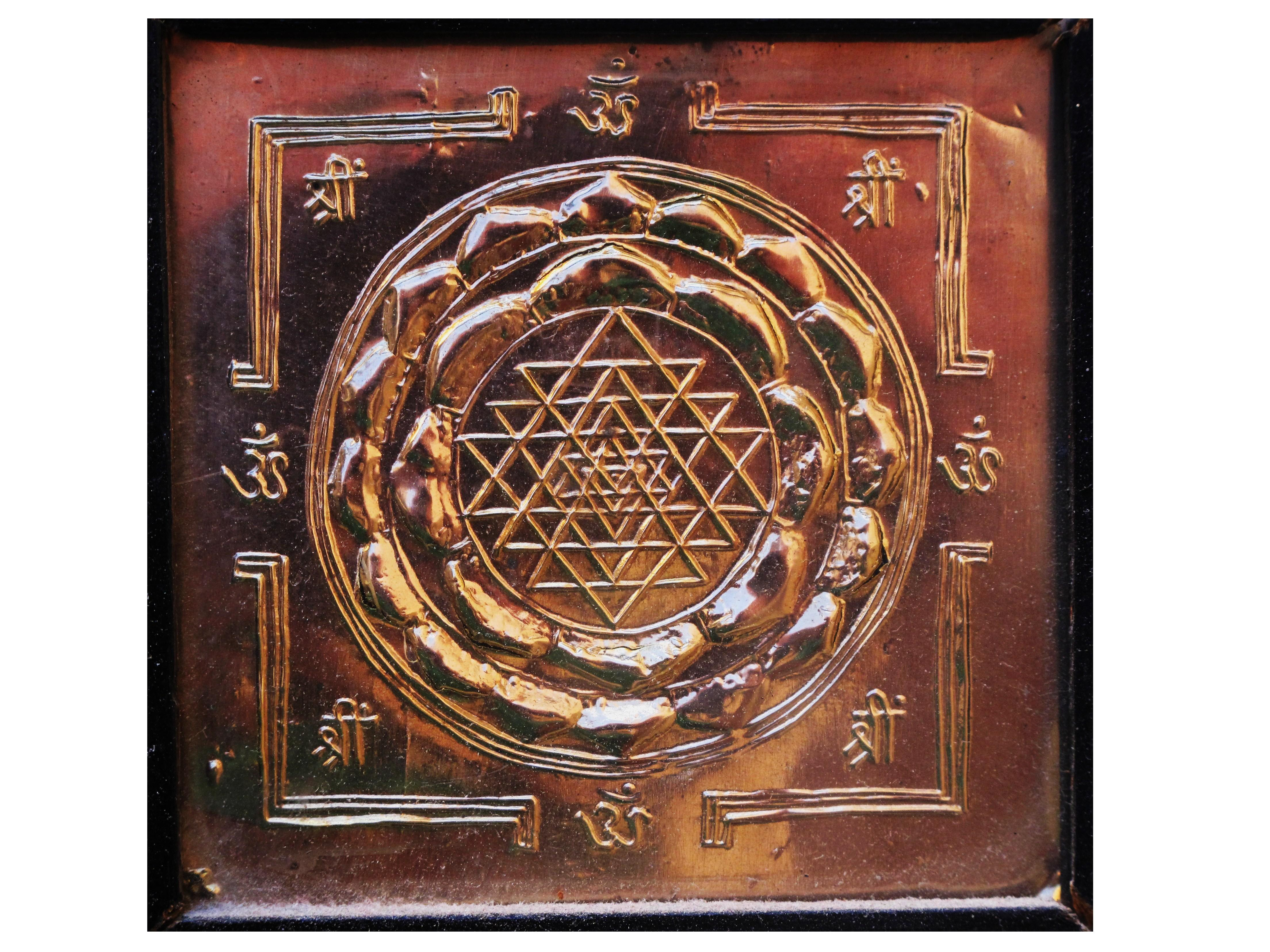 Sri yantra on a copper plaque. Length of a side : 11 cm (frame) ; 7 cm (yantra)